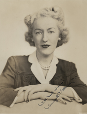 former Congresswoman Winifred C. Stanley of New York.